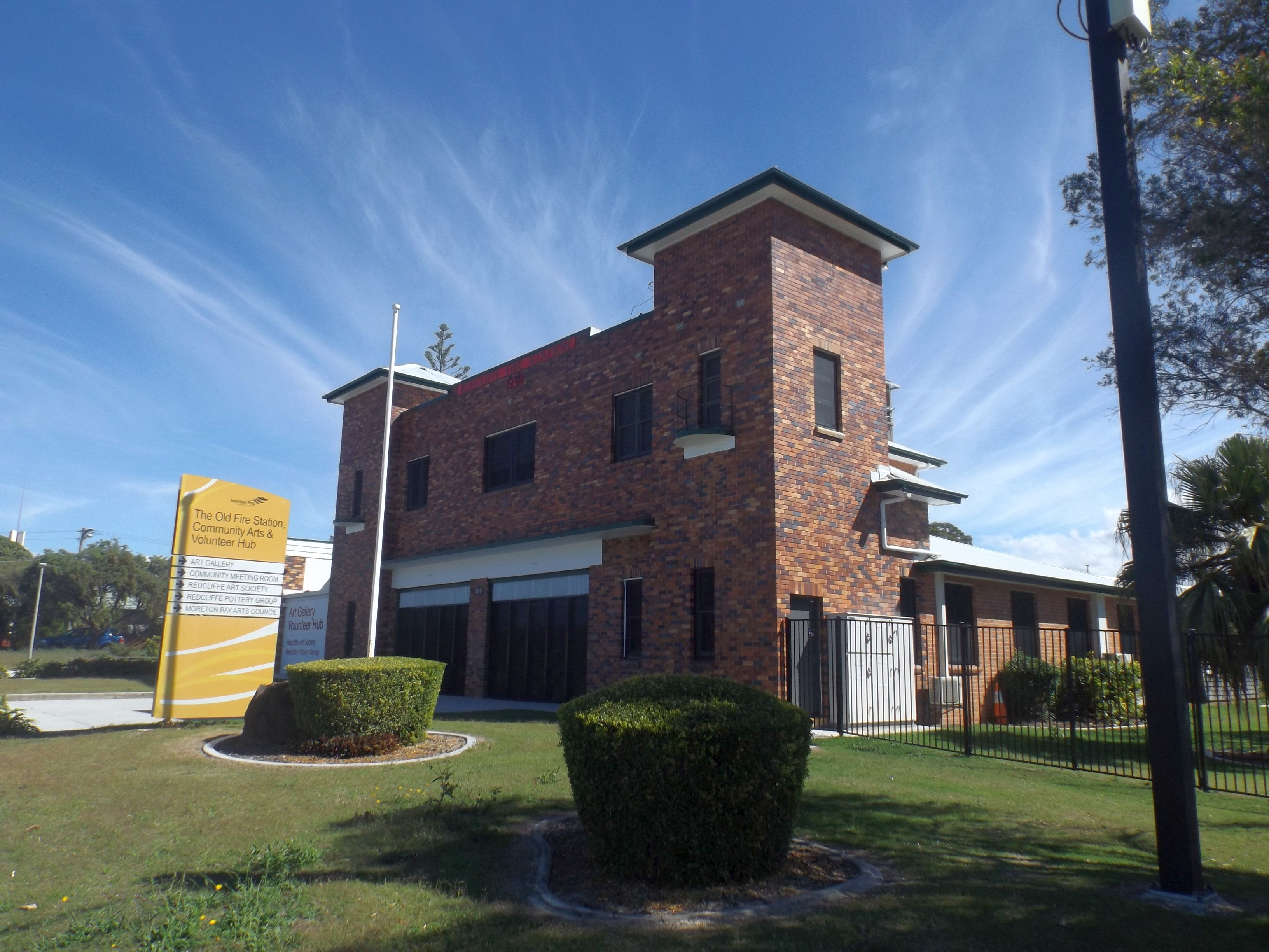 Photo of the former Redcliffe Fire Station at Redcliffe, Moreton Bay Region, Queensland, Australia.